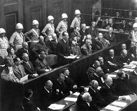 Date: Dec 10, 1945 Locale: Nuremberg, [Bavaria] Germany Credit: USHMM, courtesy of National Archives and Records Administration, College Park Copyright: Public Domain [1]. photograph #14465: "Defendant Ernst Kaltenbrunner pleads "not guilty" to the charges against him at the International Military Tribunal trial of war criminals at Nuremberg."